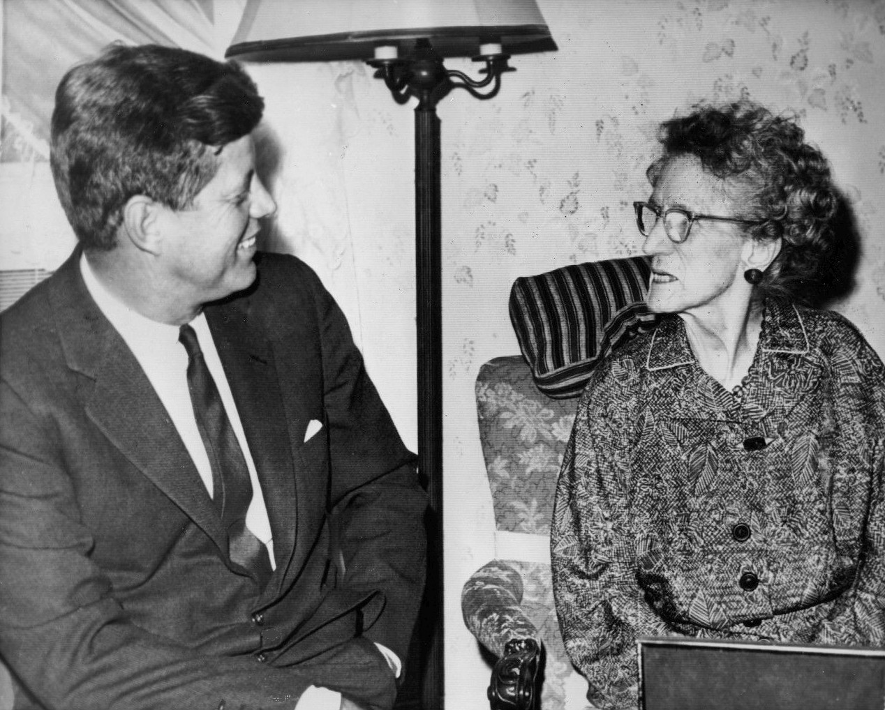 Photo of President John F. Kennedy visiting with his 97 year old grandmother, Mary Josephine "Josie" Fitzgerald, at her Boston home in 1962. She was the wife of former Boston mayor John F. Fitzgerald and the mother of Rose Fitzgerald Kennedy.